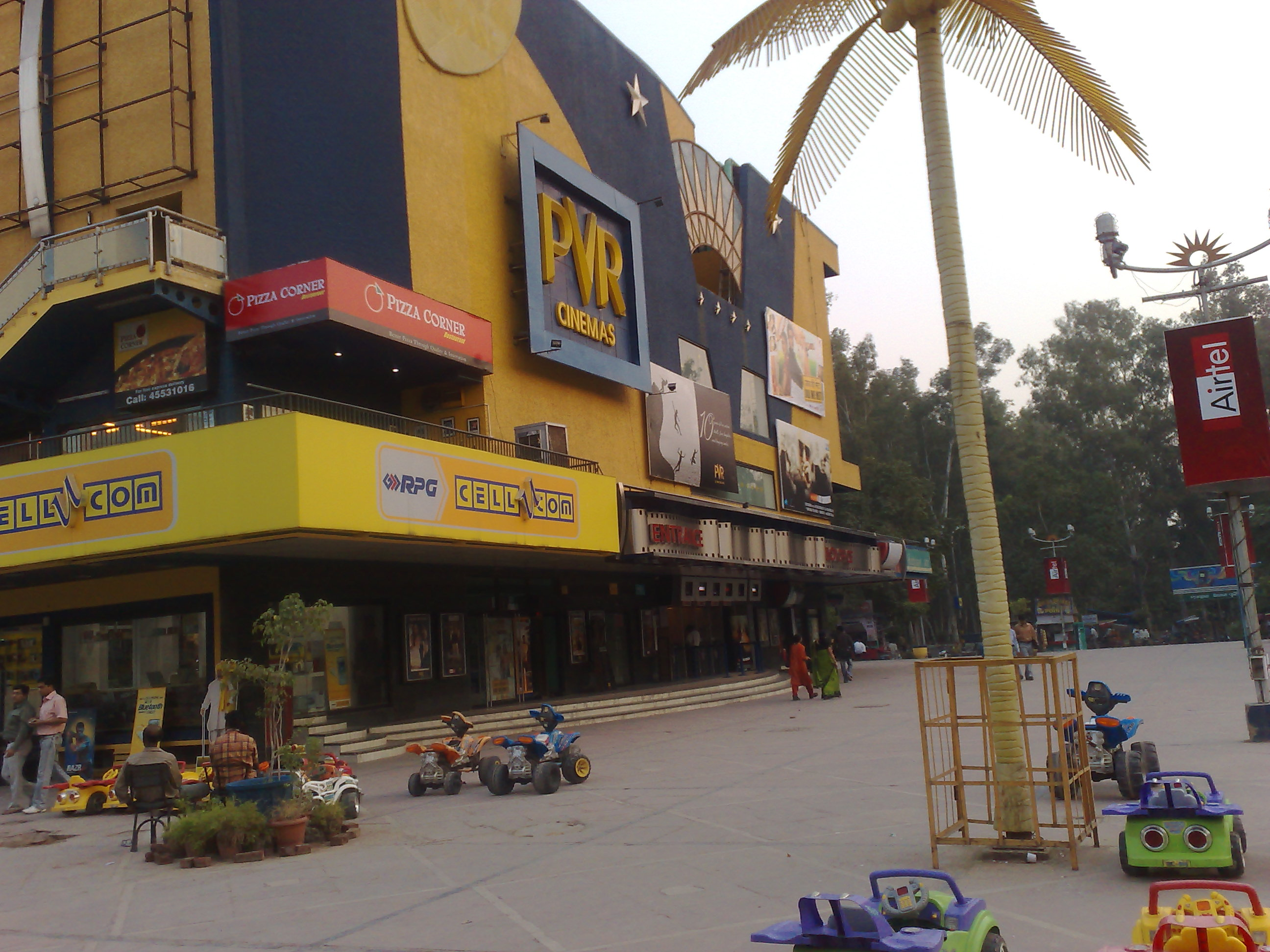 PVR Vikas Puri The hagout joint of the city